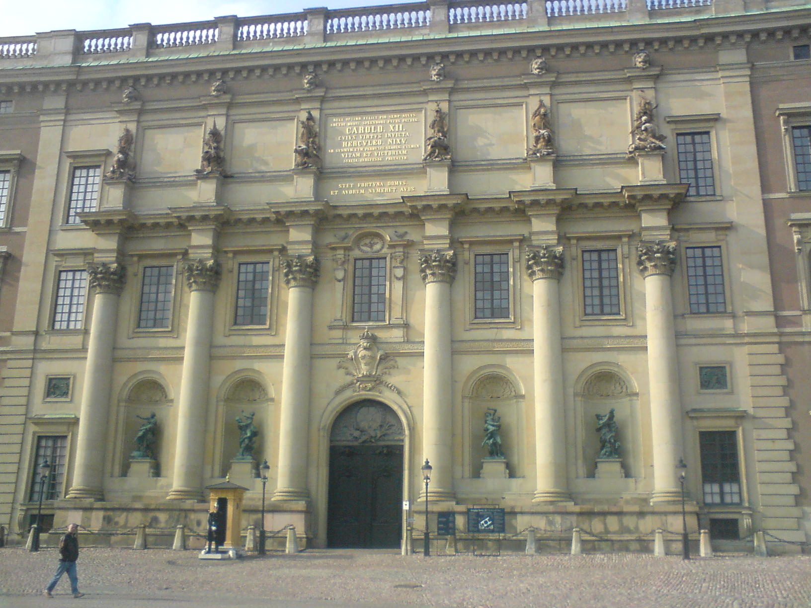 The south portico of the Royal Palace in Stockholm